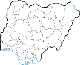 Ado Ekiti, Nigeria Location Map, Adapted from Locator Map Aba-Nigeria.png which was made by User:Civvi at Wikimedia Commons